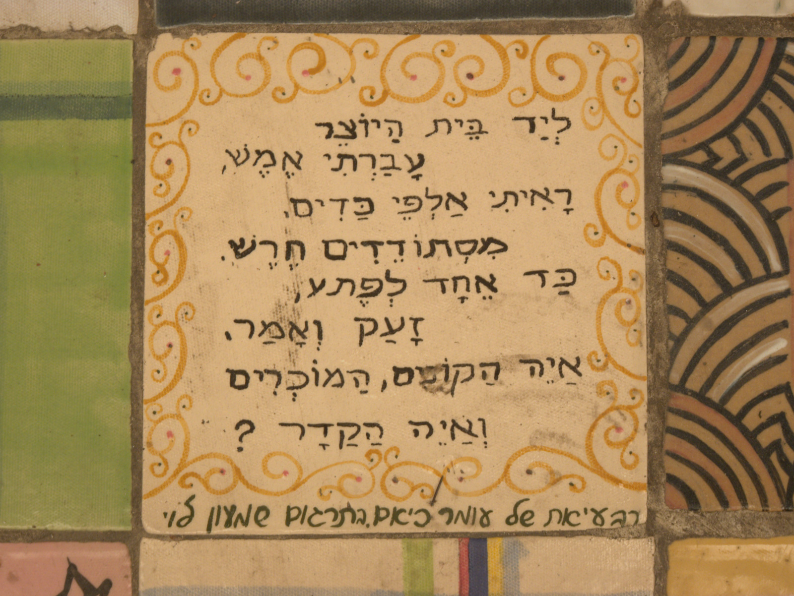 Jerusalem, Mahane Yehuda Market, HaEgoz street - Pri Ha'Adama, Ceramic Artists Cooperative פרי האדמה קואופרטיב אמני קרמיקה